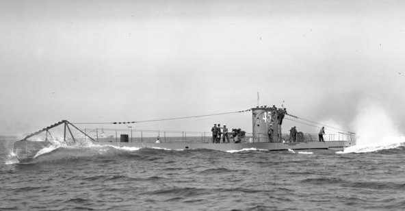 U-45 in 1938